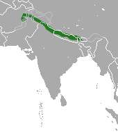 Nepal Gray Langur (Semnopithecus schistaceus) range